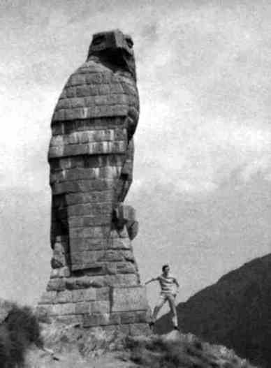 Photo of stone eagle on Simplon Pass.